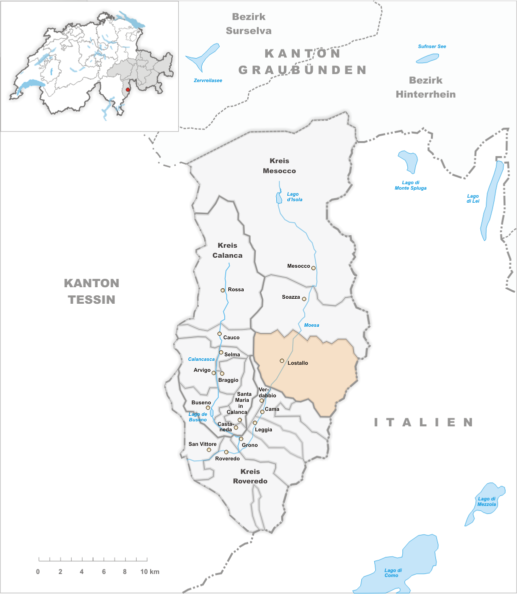 Municipality Lostallo